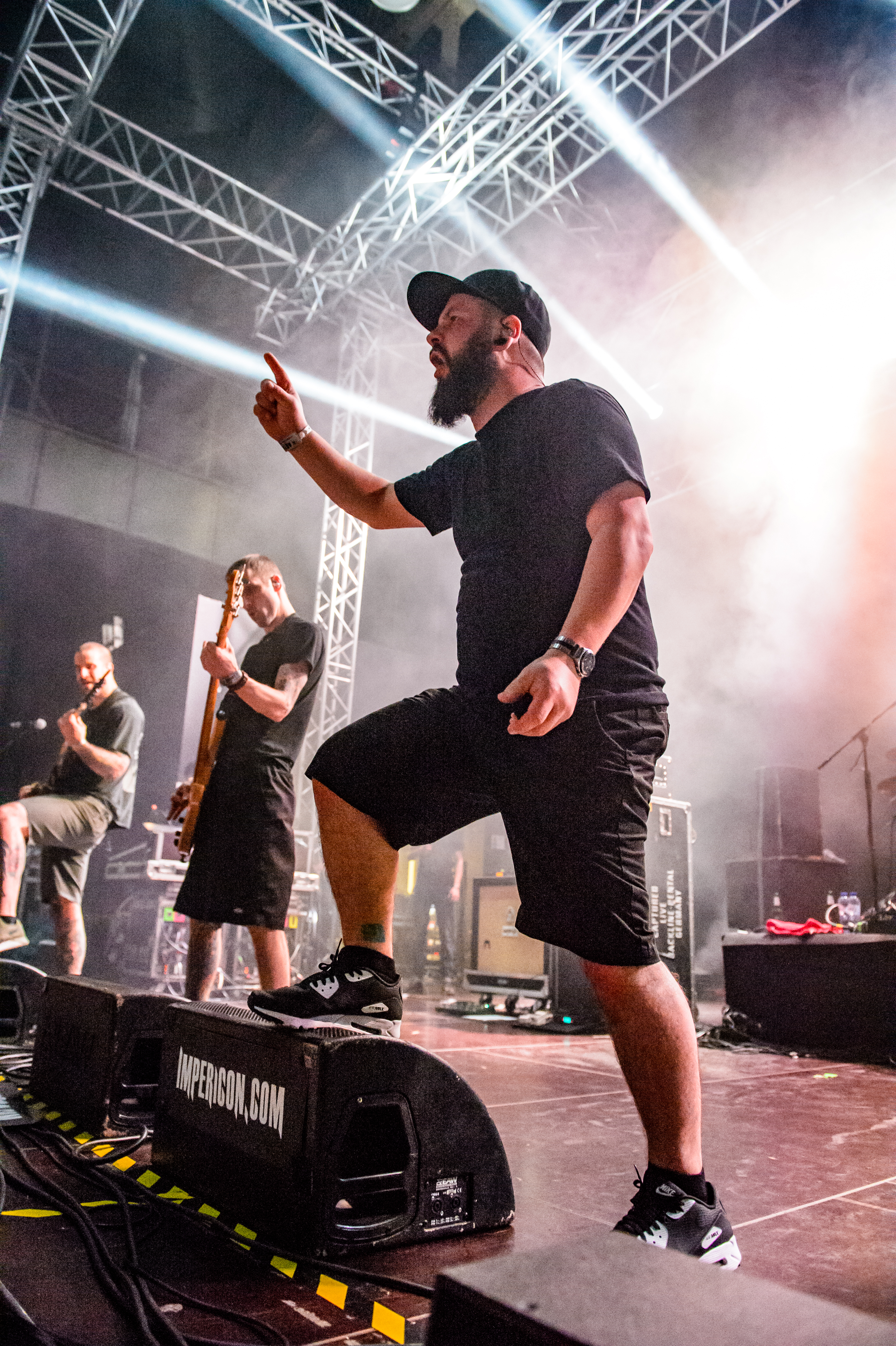 Despised Icon; Impericon Festival 2016 - Oberhausen